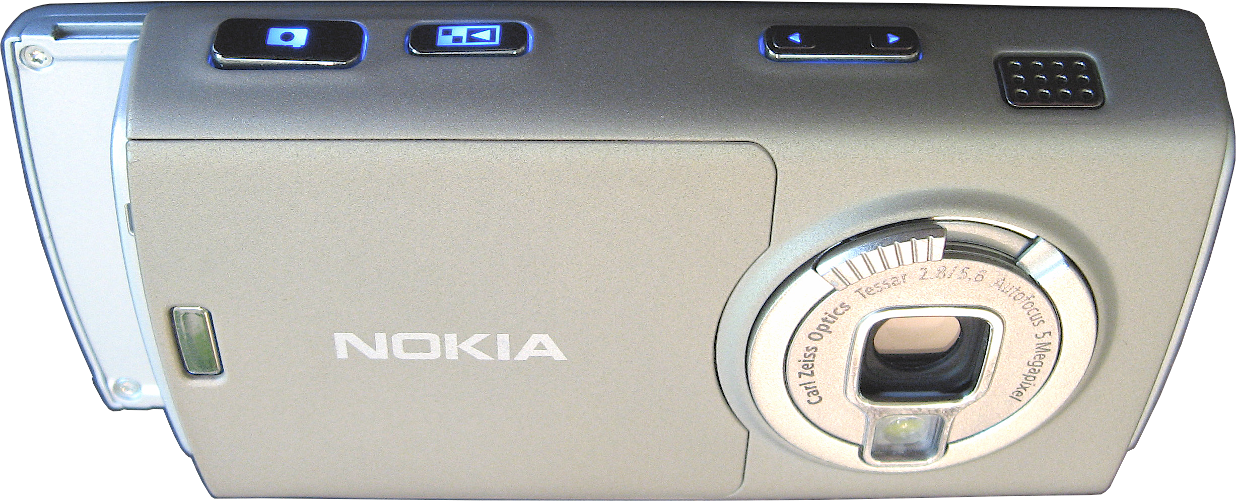 The N95 should be shipping next quarter in the U.S. With a 5MP auto-focus camera, Nokia has a clever solution to the user ergonomics in the different modes of use. There are three different ways to hold the N95 with button placement to match: 1) camera mode. It feels like a normal pocket cam, held horizontally. On the bottom camera image, the slider would actually be pushed in flush, and the blue shutter button is on the top right where you would expect it with a camera. 2) media playback mode: the top camera image shows the slider face that reveals the nav buttons for a side grip 3) telephone use: not shown here. The slider face can slide on its rails off to the left (as well the right) to reveal the dialpad, oriented for a vertical hold of the phone. 2007-2008 should see a flurry of higher quality cameras in phones. In the slim form factors, 3MP with autofocus should lead, and then shutters, zoom and image stabilization will follow.